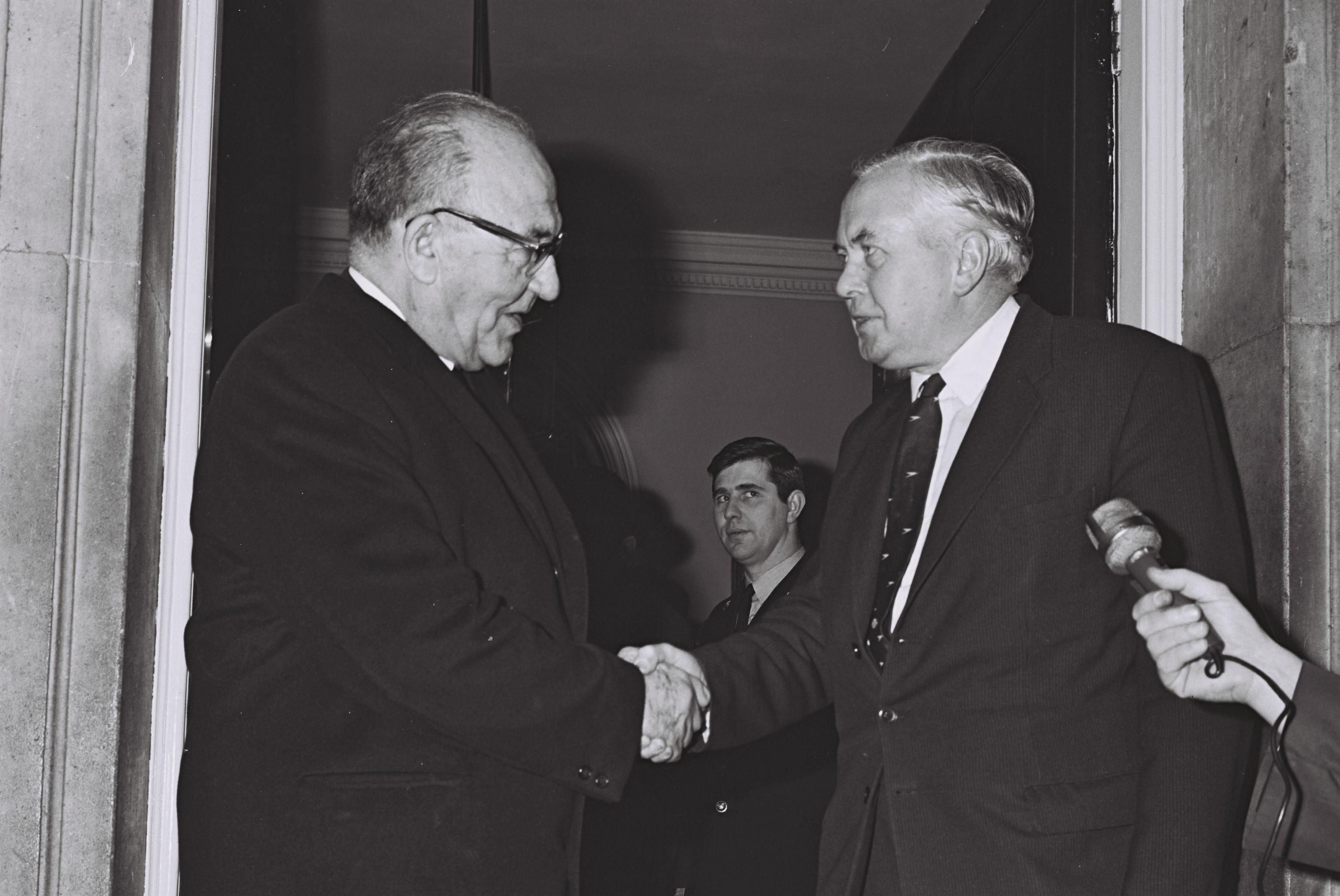 P.M. LEVY ESHKOL WITH BRITISH P.M. HAROLDWILSON AT THE DOORSTEP OF NO.10 DOWNING STREET IN LONDON. ביקור ראש הממשלה לוי אשכול באנגליה. בצילום, פגישת רה"מ עם ראש ממשלת בריטניה הרולד וילסון, ברח' דאונינג 10, בלונדון.